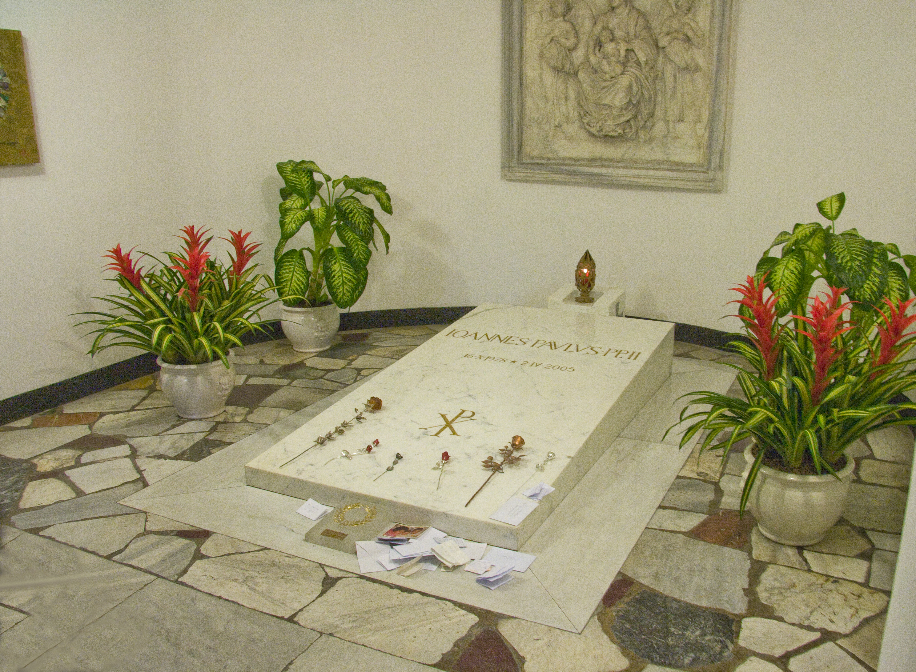 The tomb of John Paul II in the Vatican Grottoes (nonexistent)